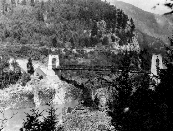 Photograph of the Alexandra Bridge, on the Fraser River.